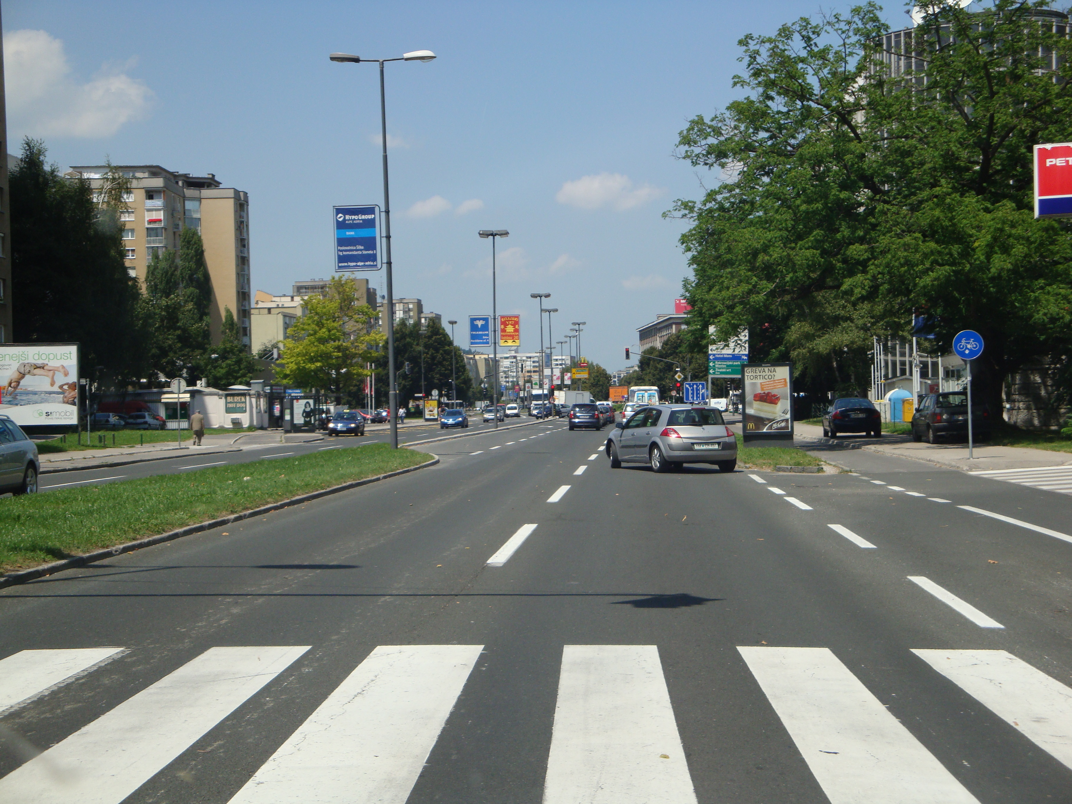 Celovška street in Ljubljana, Slovenia